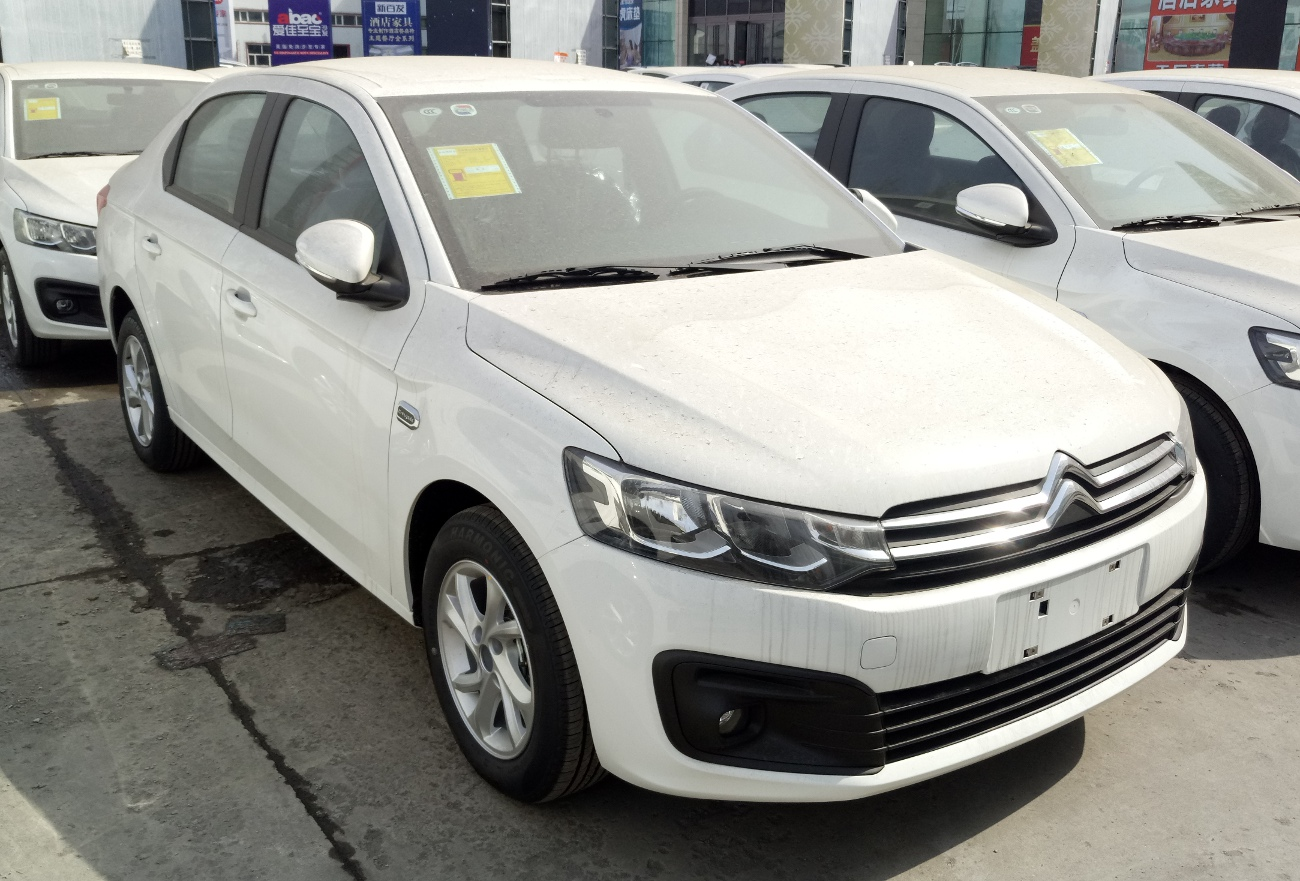 Citroën C-Elysée II facelift photographed in Harbin, Heilongjiang province, China.